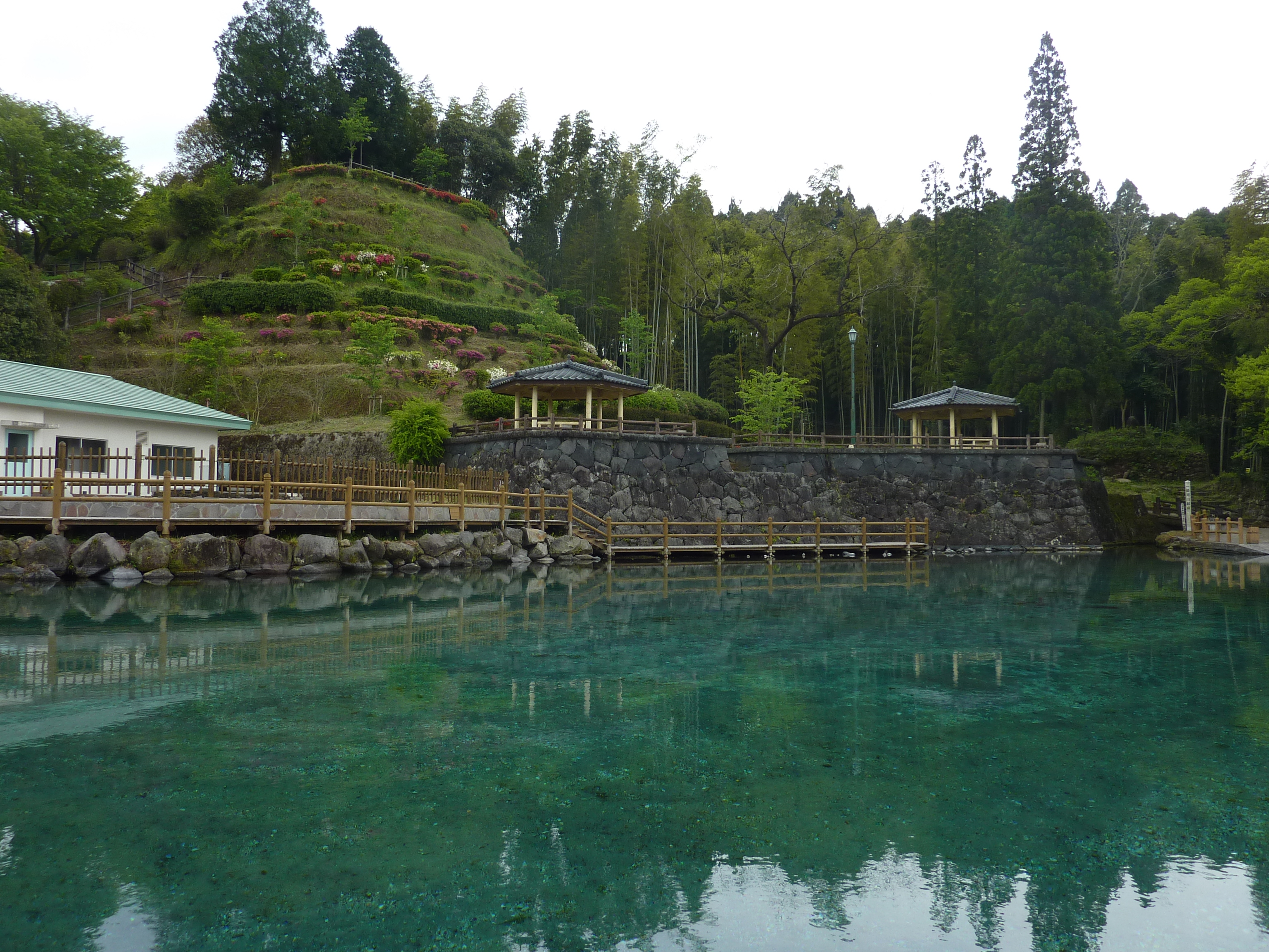 Lake Maruike (Yusui Town, Kagoshima Prefecture, Japan)